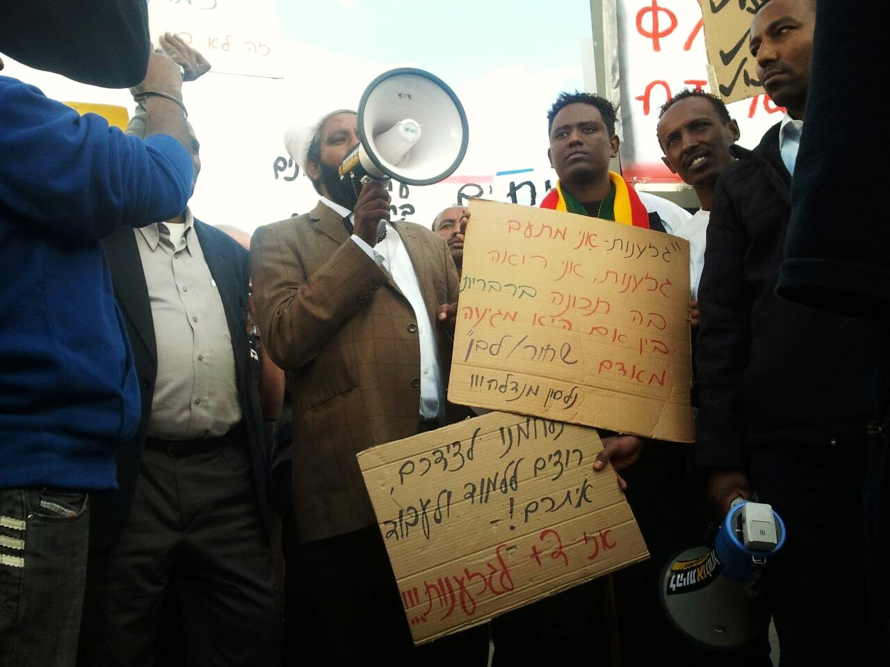 Protest in Kiryat-Malachi, Israel, against the discrimination of ethiopians